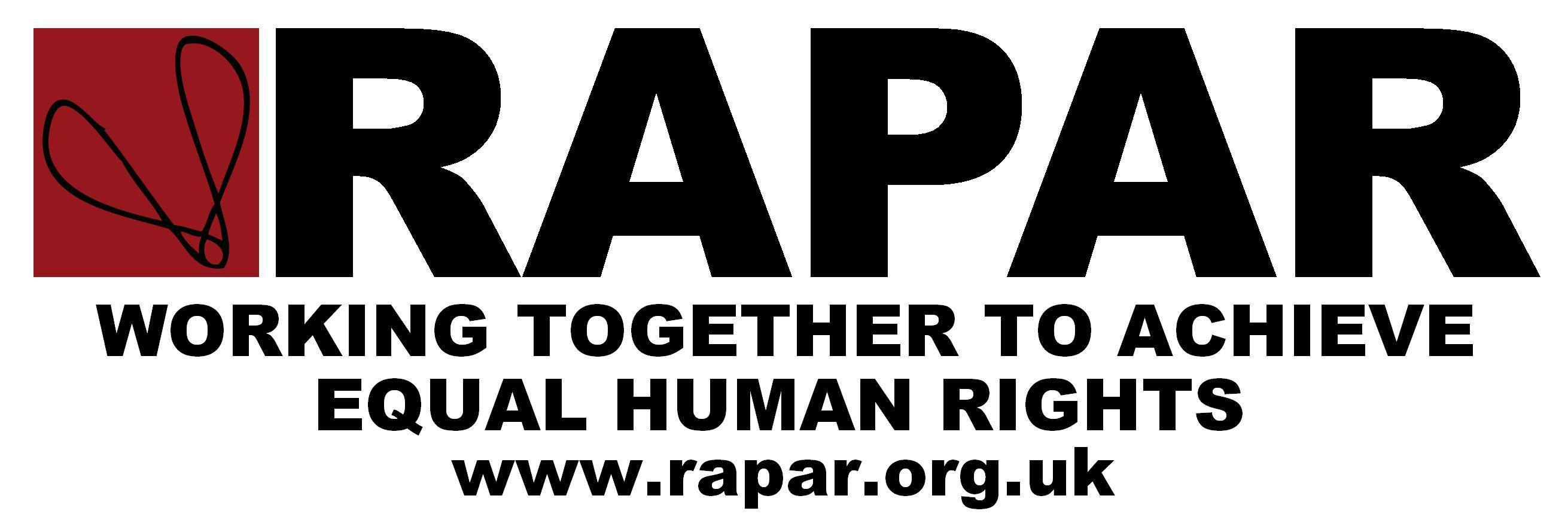 Logo of RAPAR, Manchester-based human rights organisation.